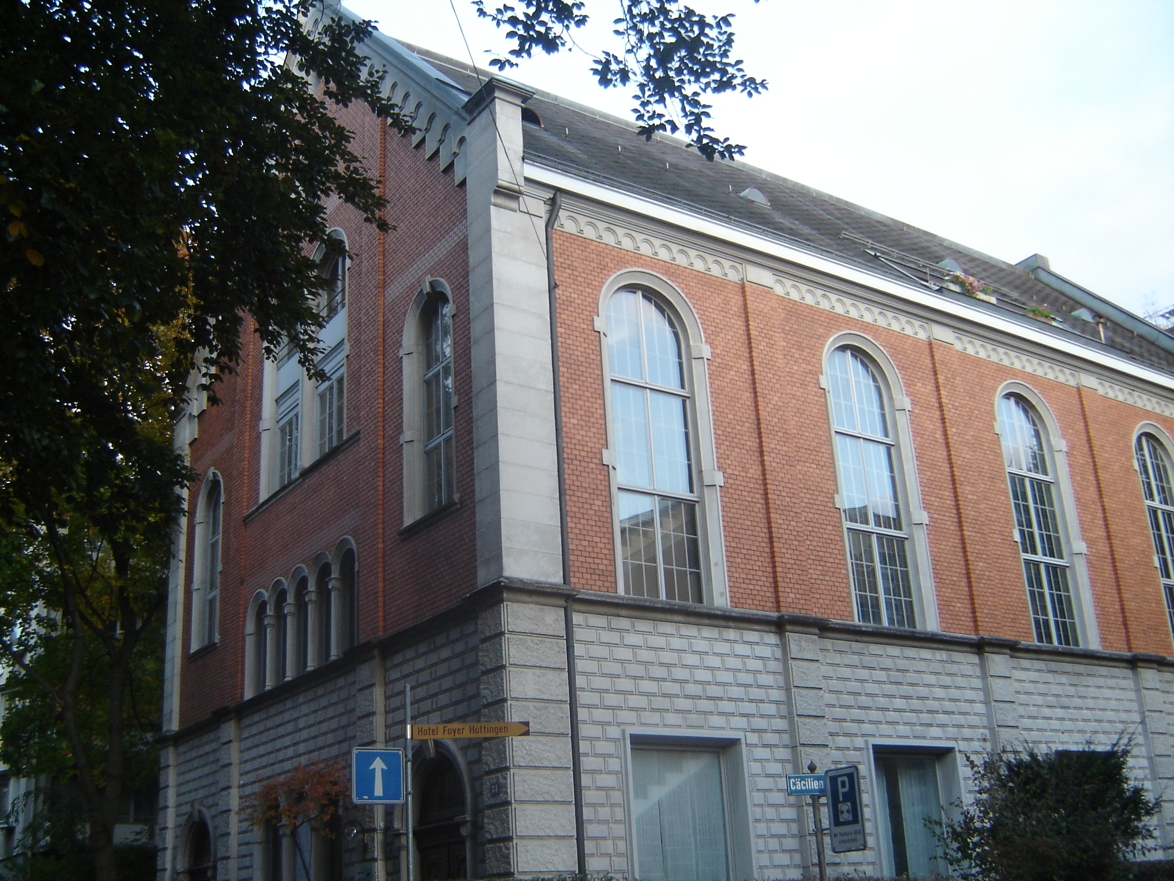 Photography taken on my own baptist church_baptisten kirche_zurich_Zürich_Switzerland_Schweiz_chapel_kapelle